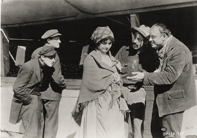 L. to R. : Harold Lloyd, unknown, Jane Novak, unknown actor, and Roy Stewart in From Italy's Shores (1915) - cropped screenshot